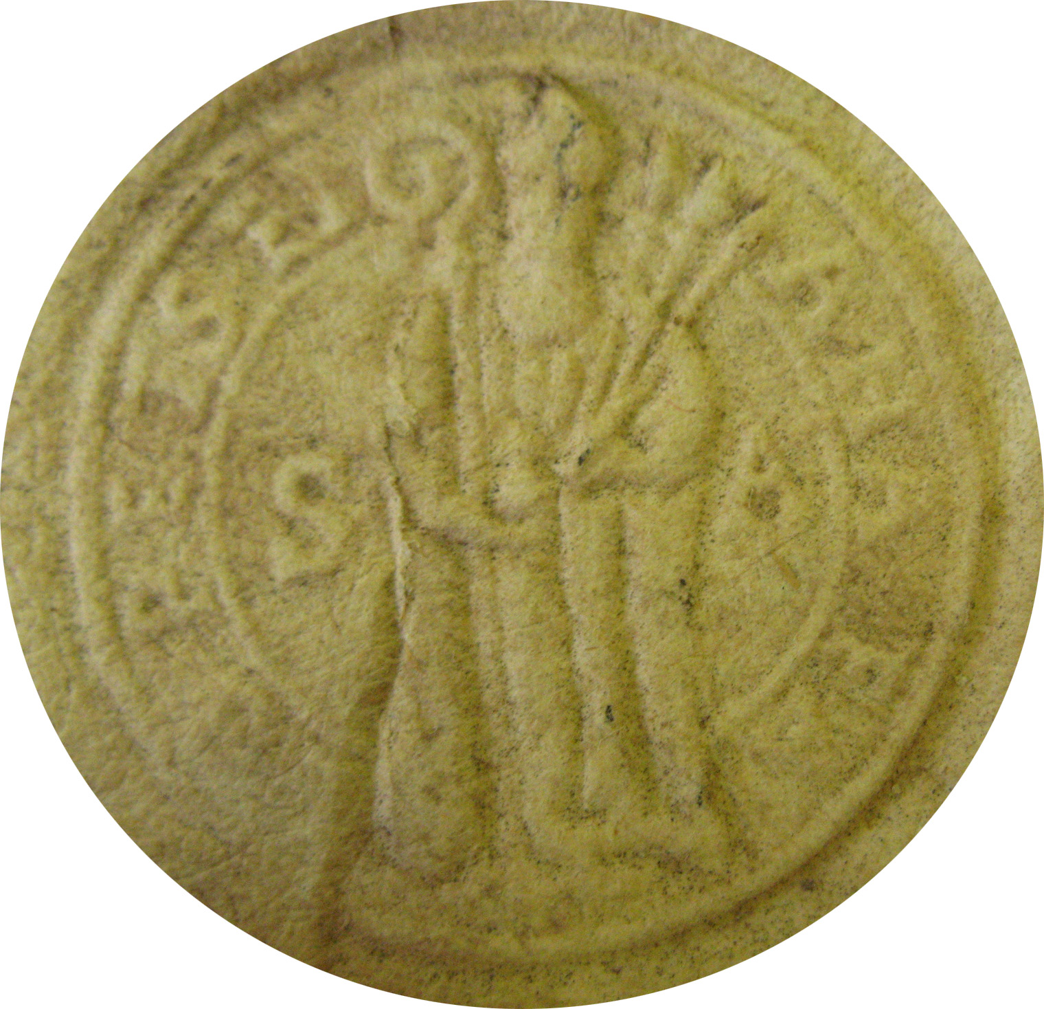 Seal of Horný Ohaj (Vráble) from 1698